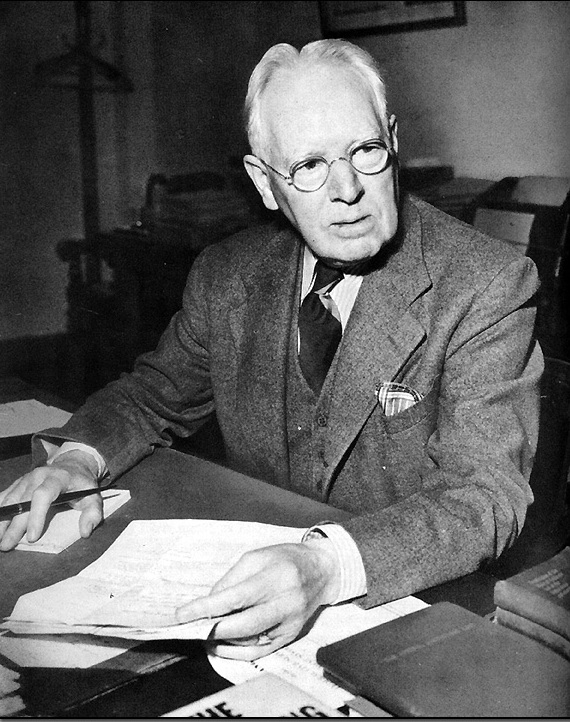 Warden James A. Johnston of Alcatraz